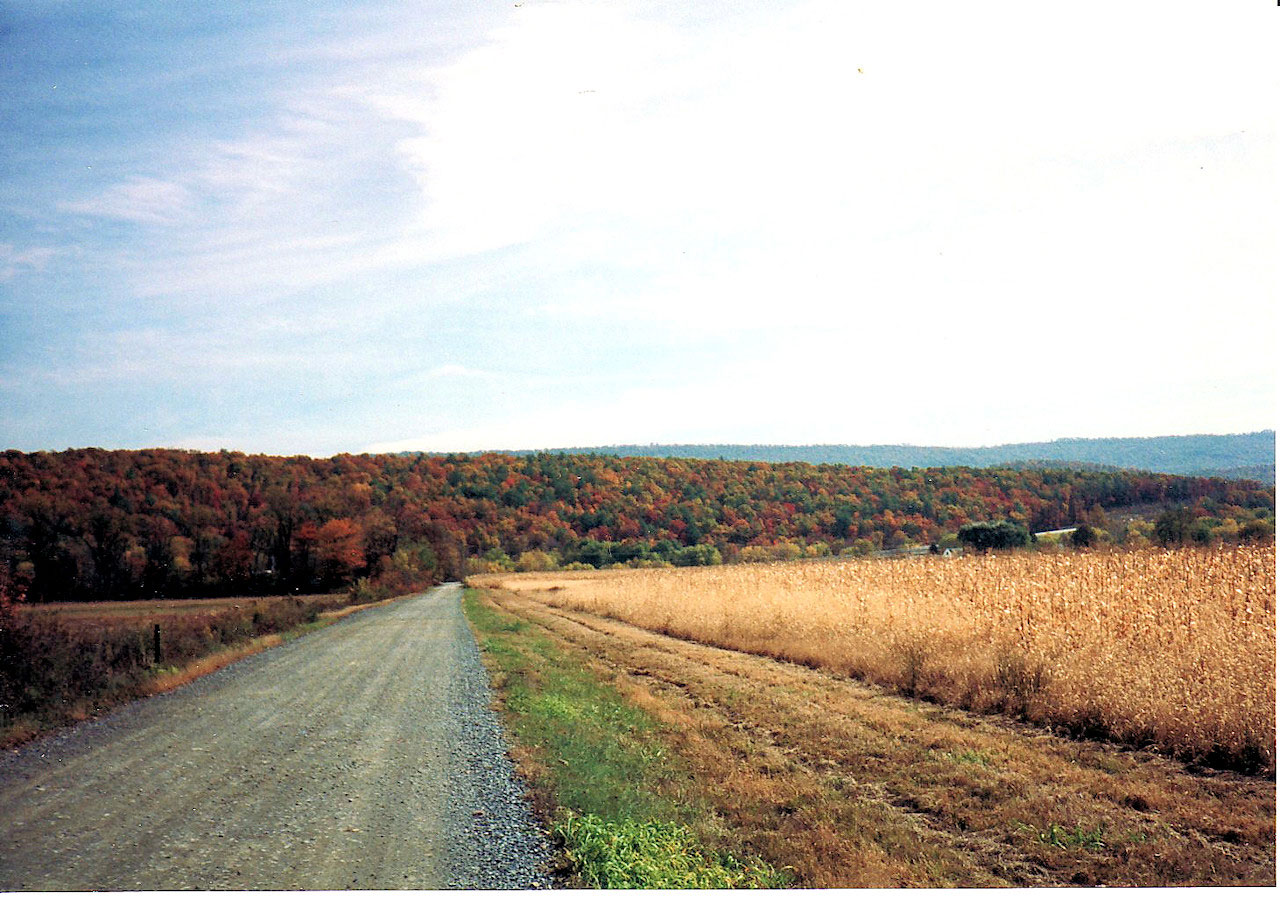 Macadam country road in Huntingdon County, PA